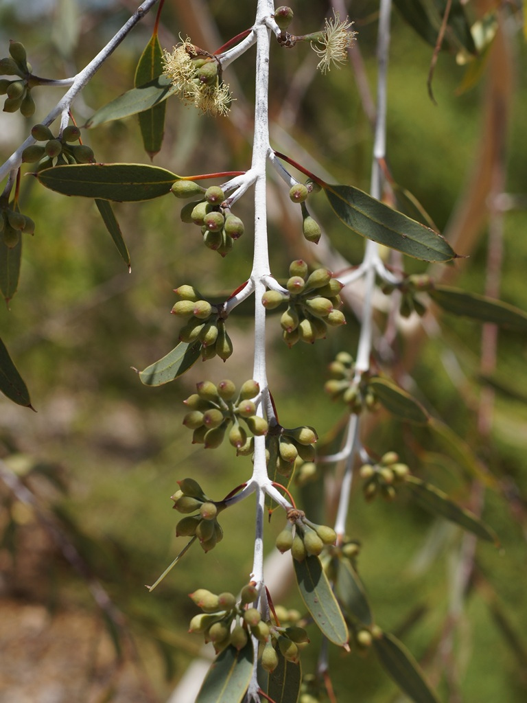 small tree, flowers buds. Kings Park Australia